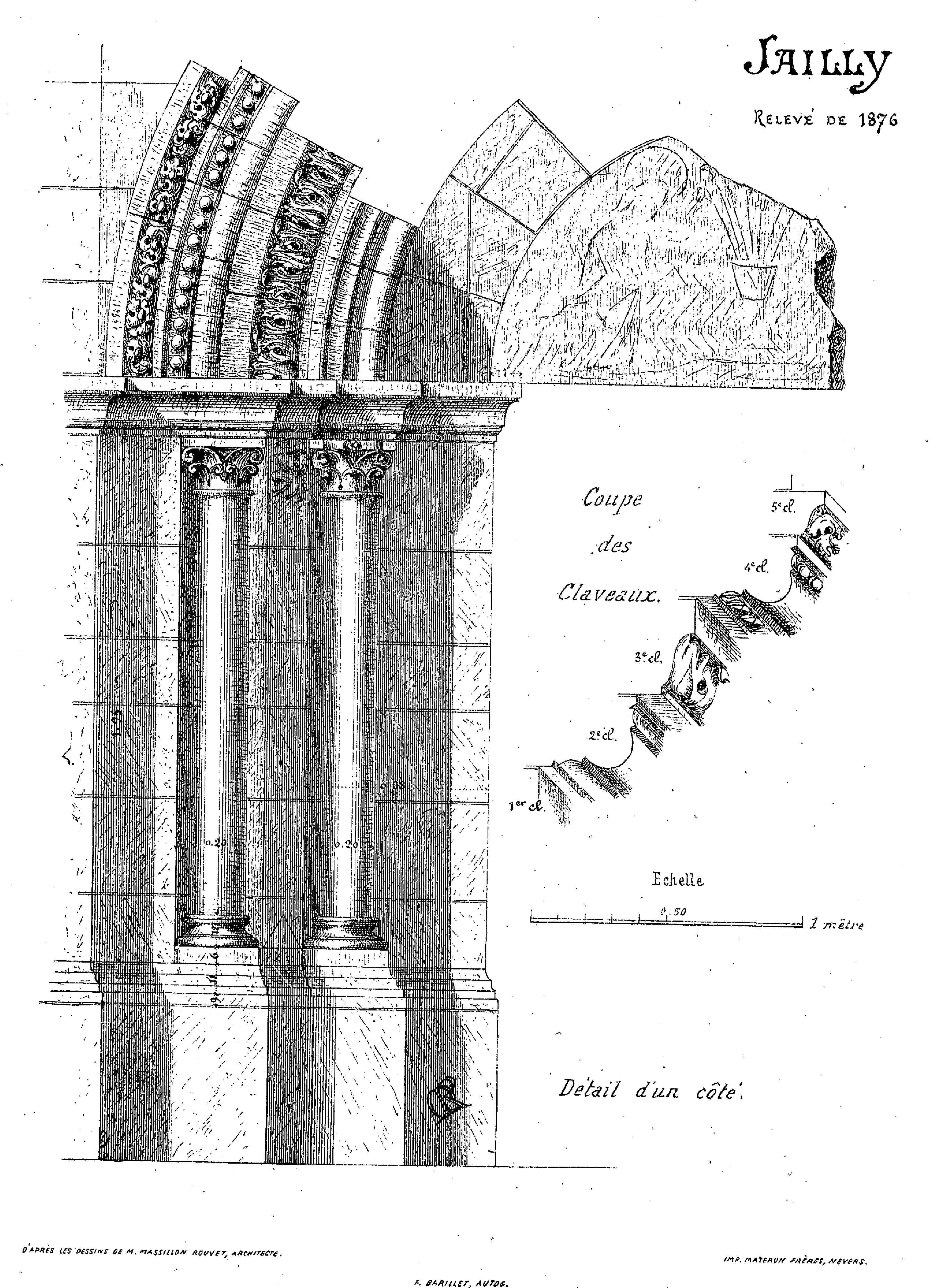 Drawing from the study conducted in 1876 by Mr. Rouvet-Massillon, Architect, representative of the Academic Society of Nivernais, the Church of Jailly the architectural point of view